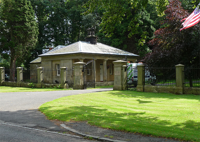 Lodge and gates near Mitford